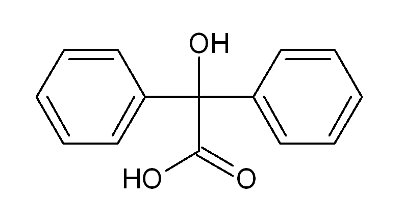 Author: Tomaxer Created using: ACD/ChemSketch